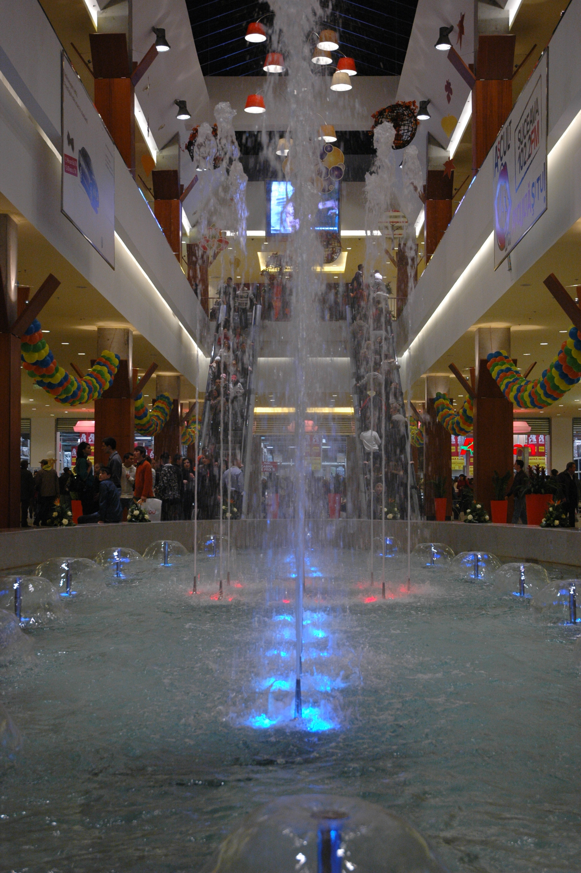 Iulius Mall Suceava - fountain inside the mall.